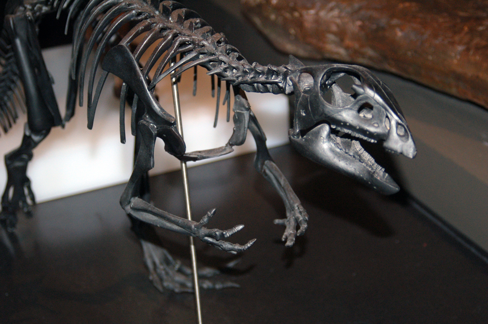 Photo: mounted skeleton of Qantassaurus intrepidus at the Australian Museum, Sydney.